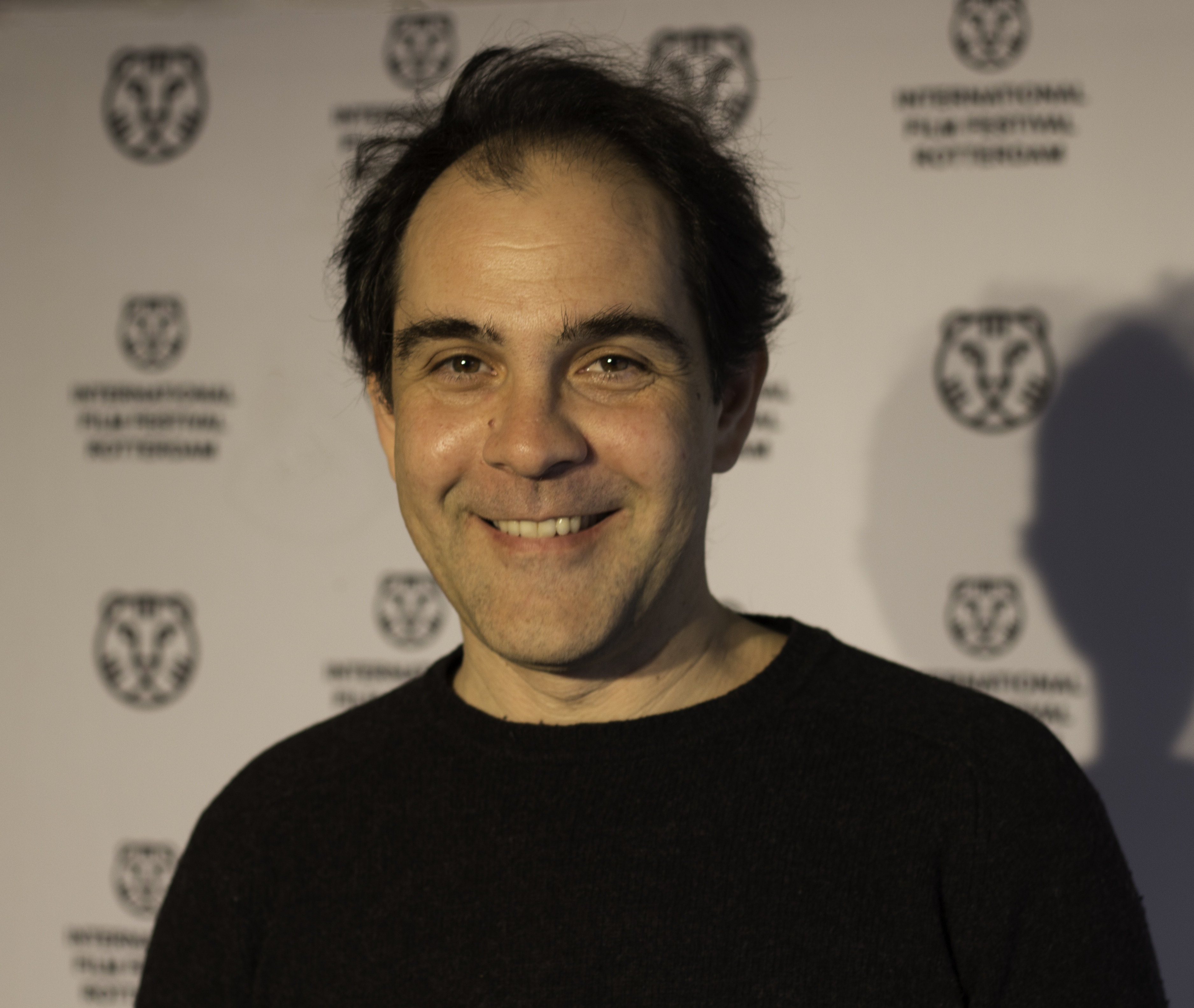 Sandro Aguilar at the International Film Festival Rotterdam 2020